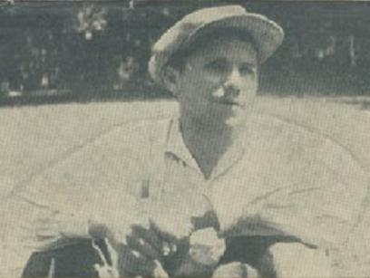 The photo of Miško Kranjec in the front-page of first issue of his roman Os živeljenja (The centerline of the life), 1935